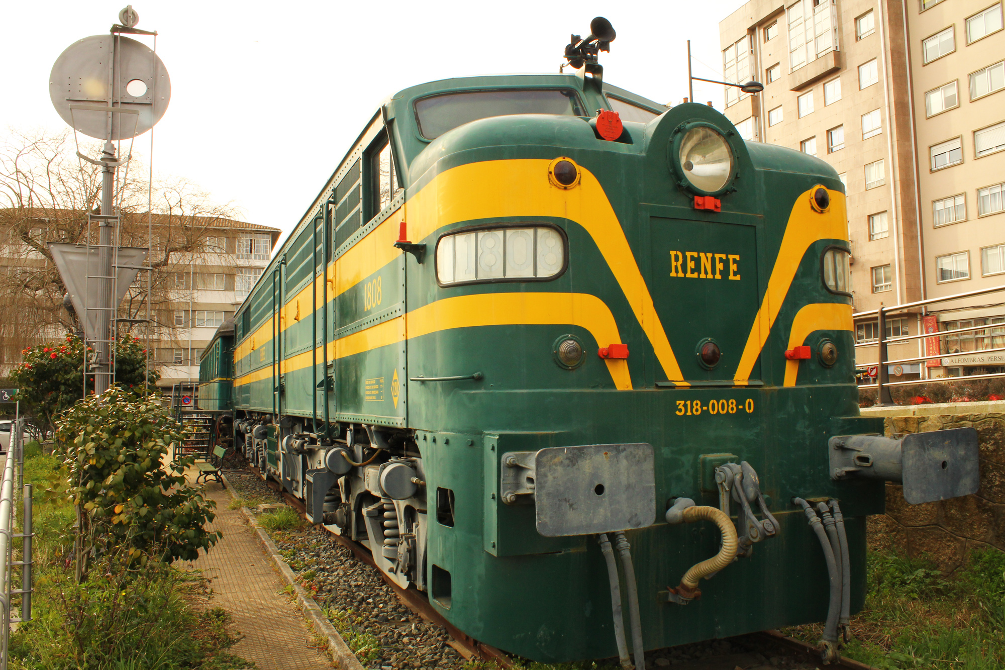 Diesel locomotive Alco model 318, with serial number 318-008-0 (82,649, number of Renfe 1808). Acquired by Renfe in 1958, currently has no engine and is the seat of the Association of Friends of the Railroad of Compostela. It's located outside the station of Santiago de Compostela.